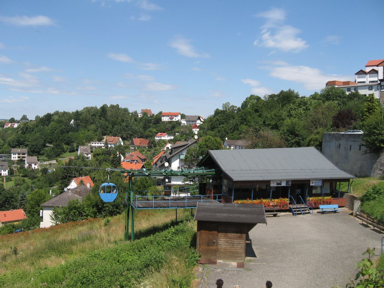 Germany / Hesse / Lake Edersee: mountain station of the cable car to castle Waldeck